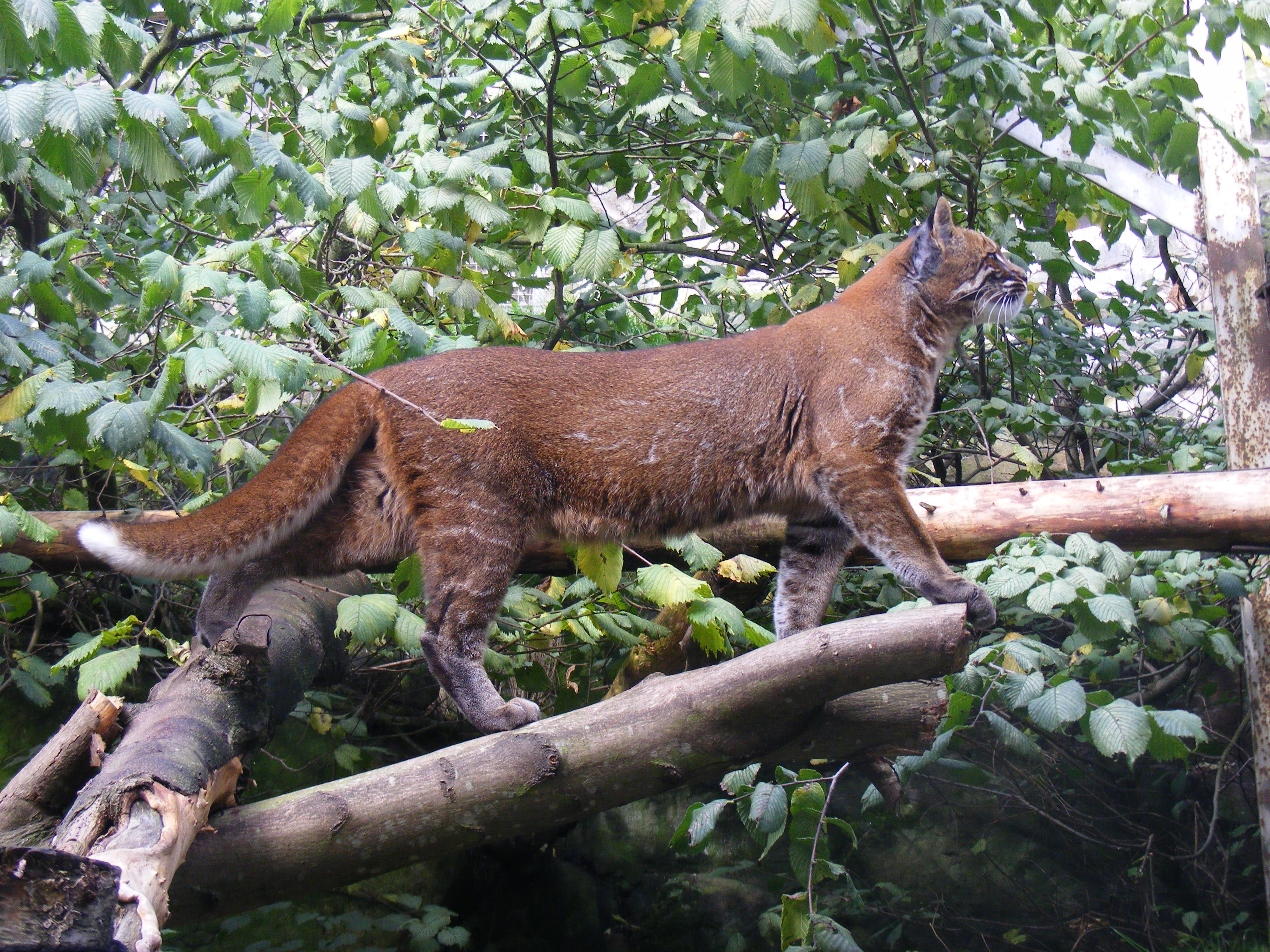 Asian golden cat - taken at Edinburgh Zoo on 2nd October 2010